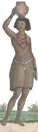 A lady of Sennar at the time of the Egyptian conquest (1821). Note: I photoshopped certain parts out of the original, in particular a spear and a foot and added vegetation instead.